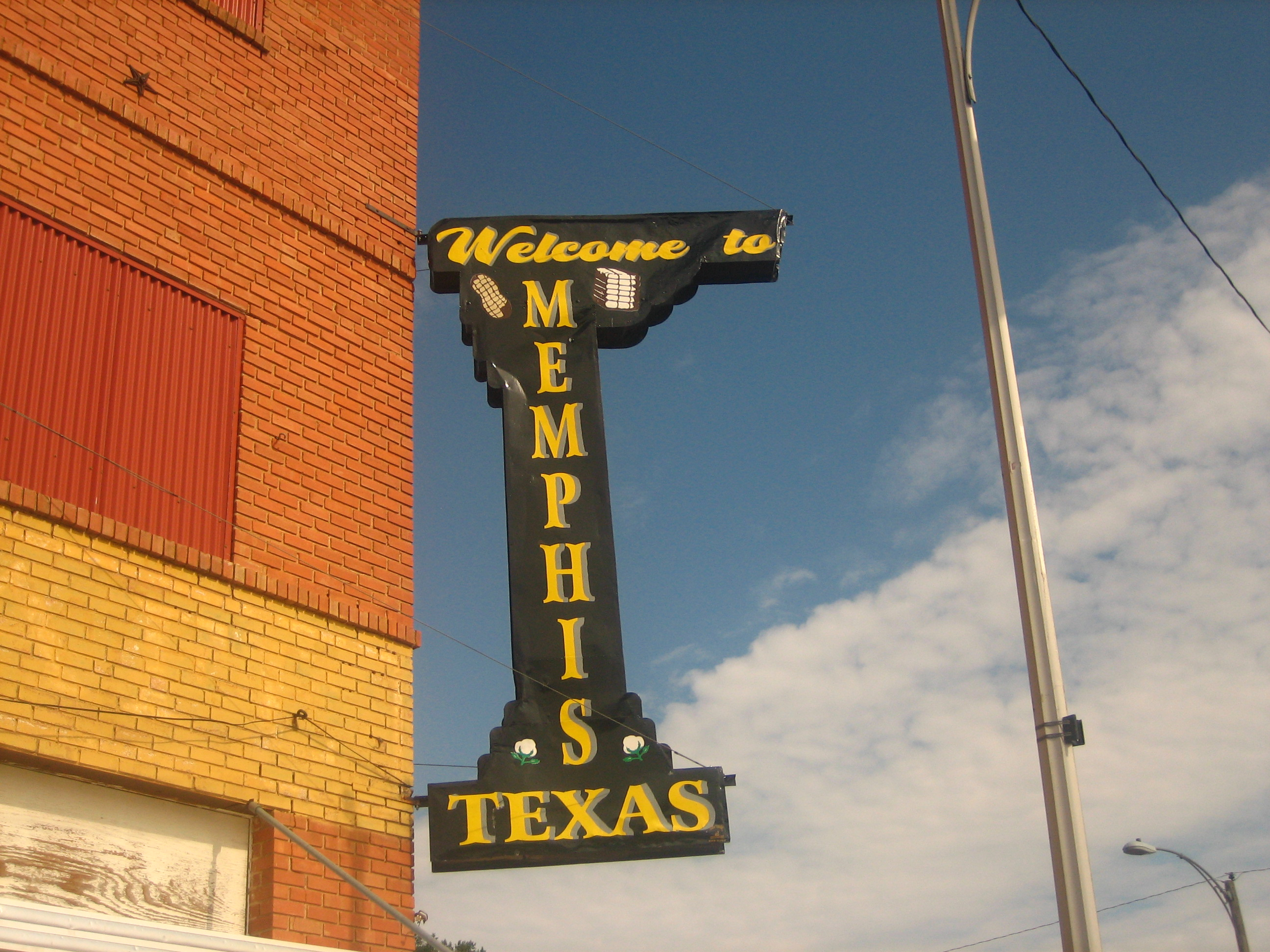 Vertical "Welcome to Memphis Texas" sign on the brick building on the NE corner of 5th Street and Noel Street (TX SH 256), courthouse square, Memphis, Texas